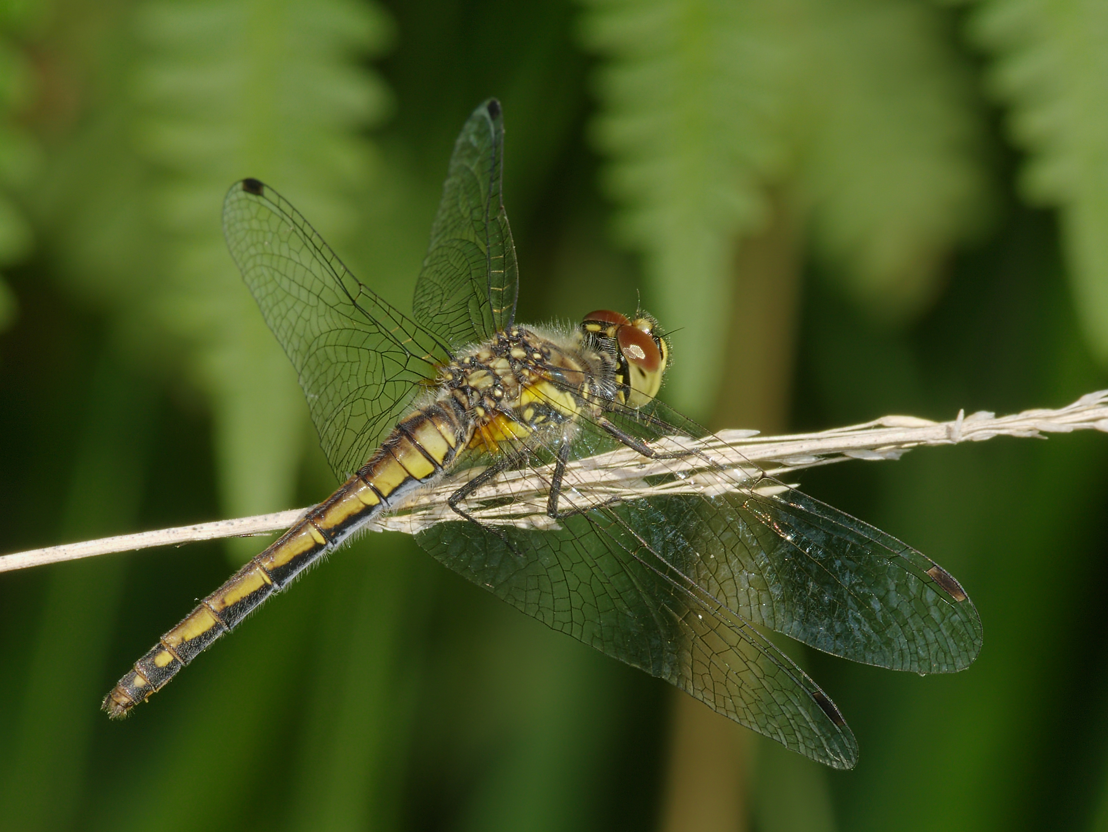 Black darter - Sympetrum danae, female. Taken by the Zadlitzgraben in Pressel, Laußig, Saxony, Germany.